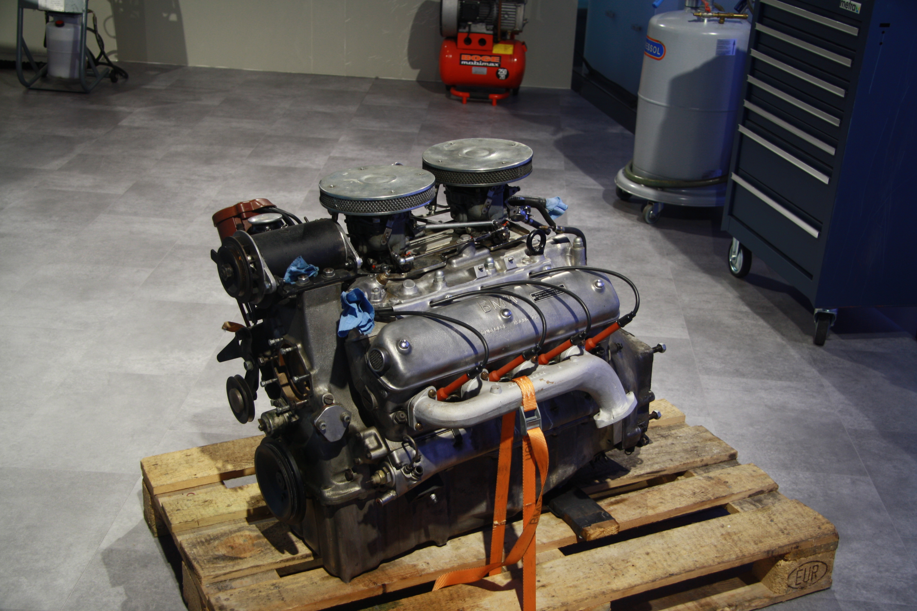 Engine of BMW 507 in BMW-Museum in Munich, Bayern.